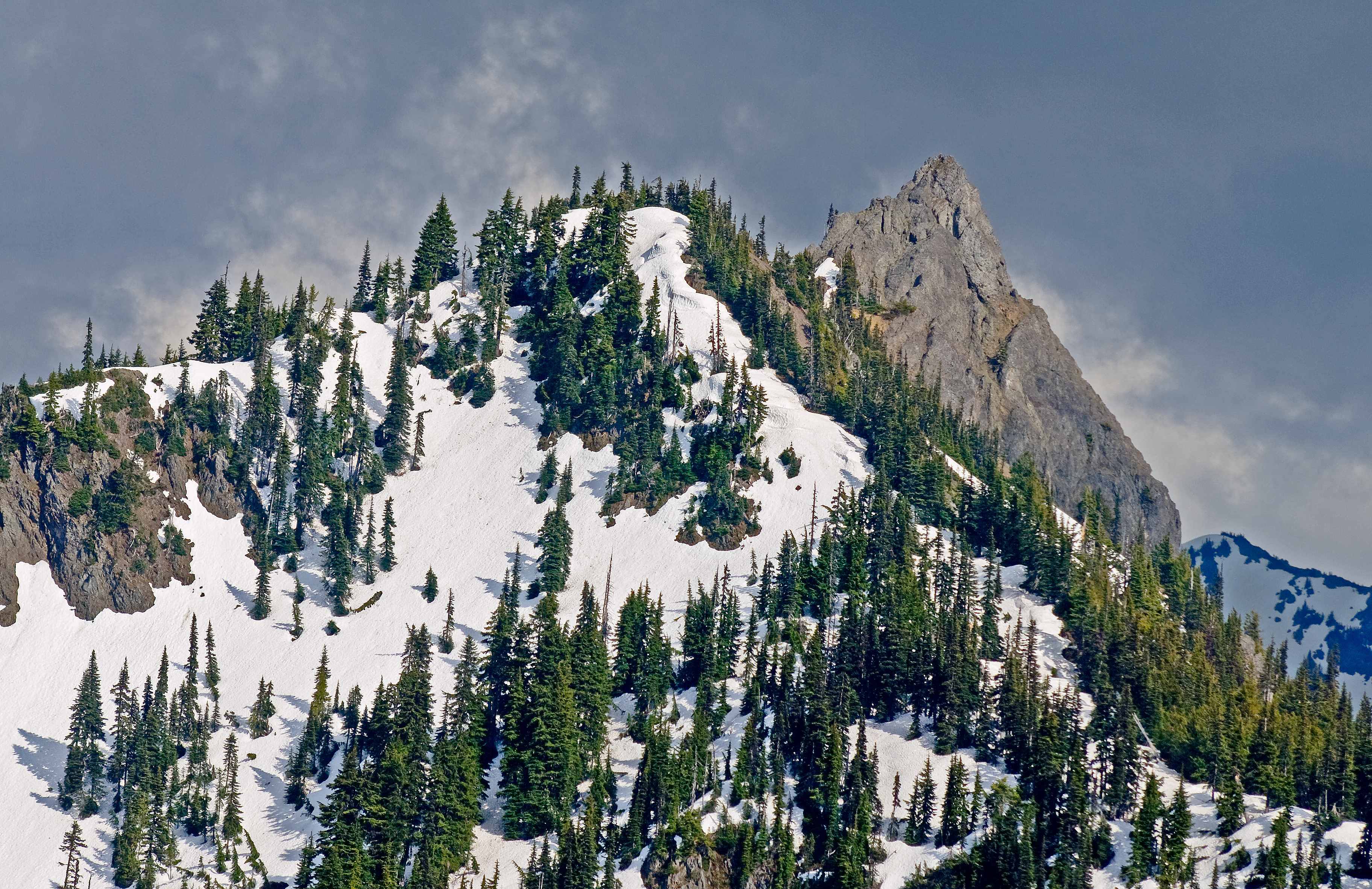 Hurricane Ridge is a mountainous area in Washington's Olympic National Park. It can be accessed by road from Port Angeles and is open to hiking, skiing, and snowboarding.